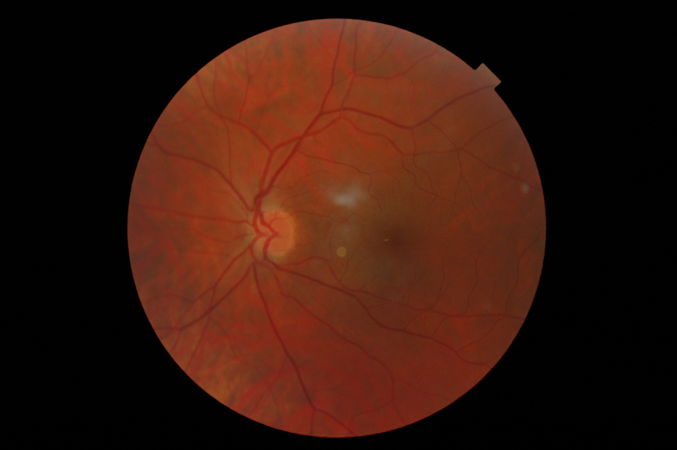 A photograph of one of the uploader's eyes, taken by his optician. The light circle is where the optic nerve exits the retina.